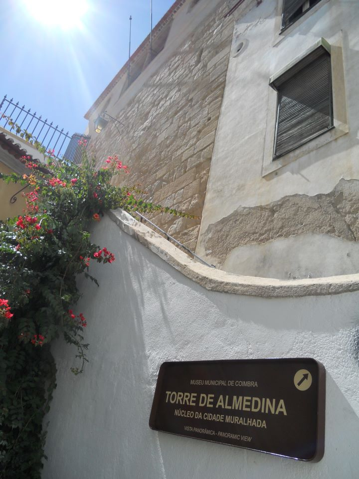 Ummauerte Stadt